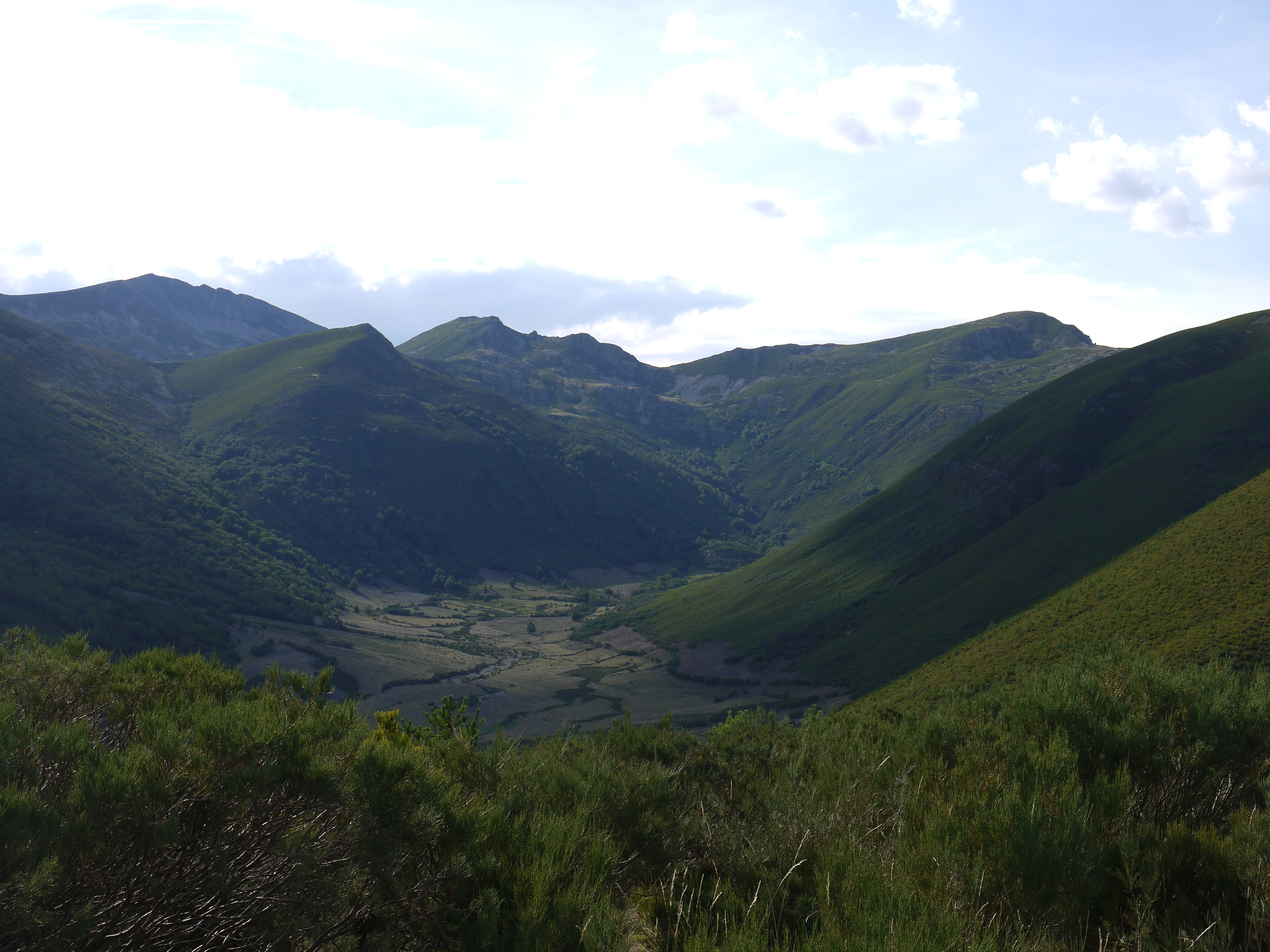 Campo de Santiago, a glacial valley in Fasgar, Spain